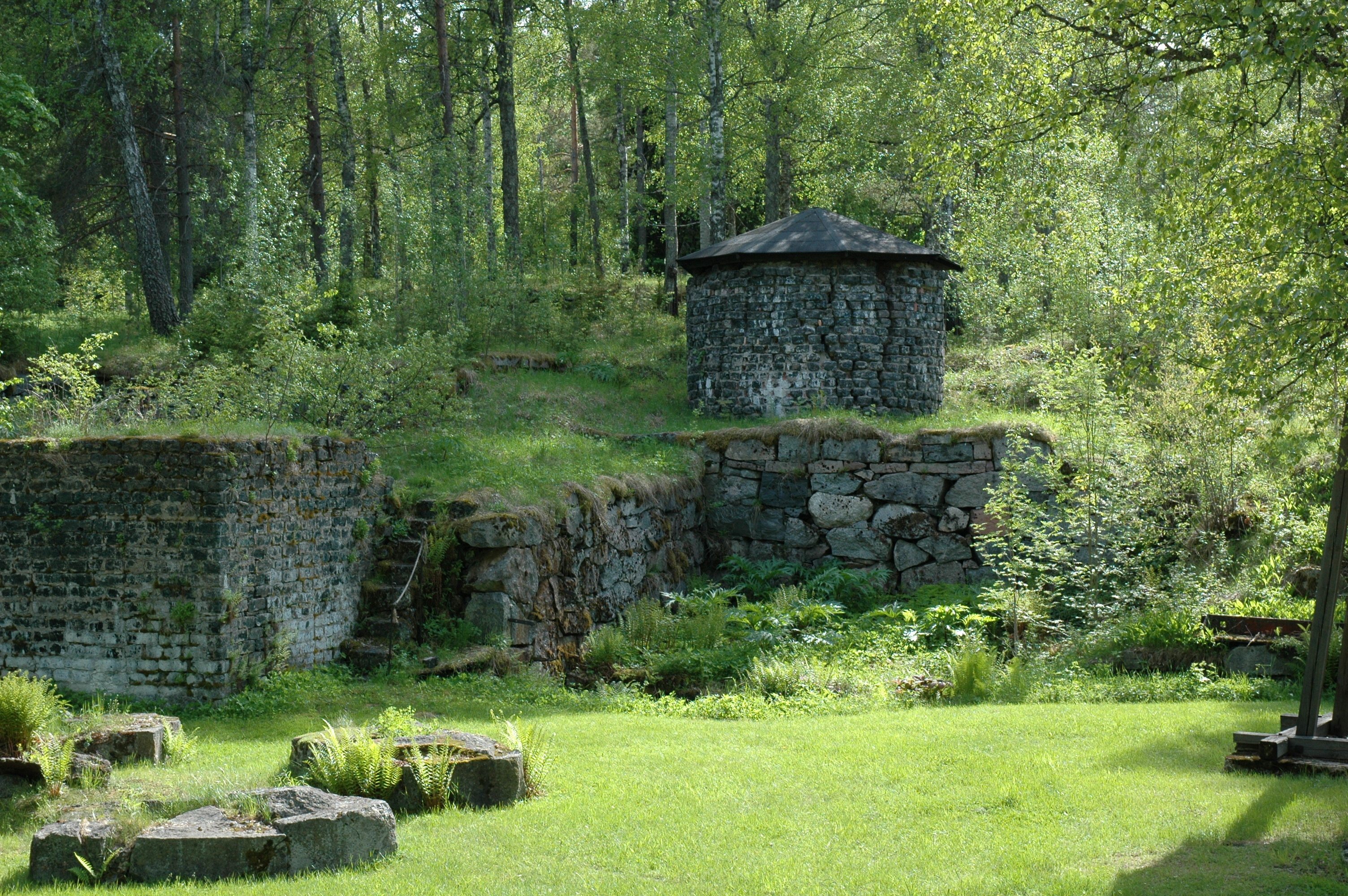 Pictures from the "Bergslagssafari" that Swedish Wikipedia performed between 4th and 6th of June 2010.